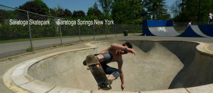 Skateboarder in the pool at Saratoga Springs Skatepark